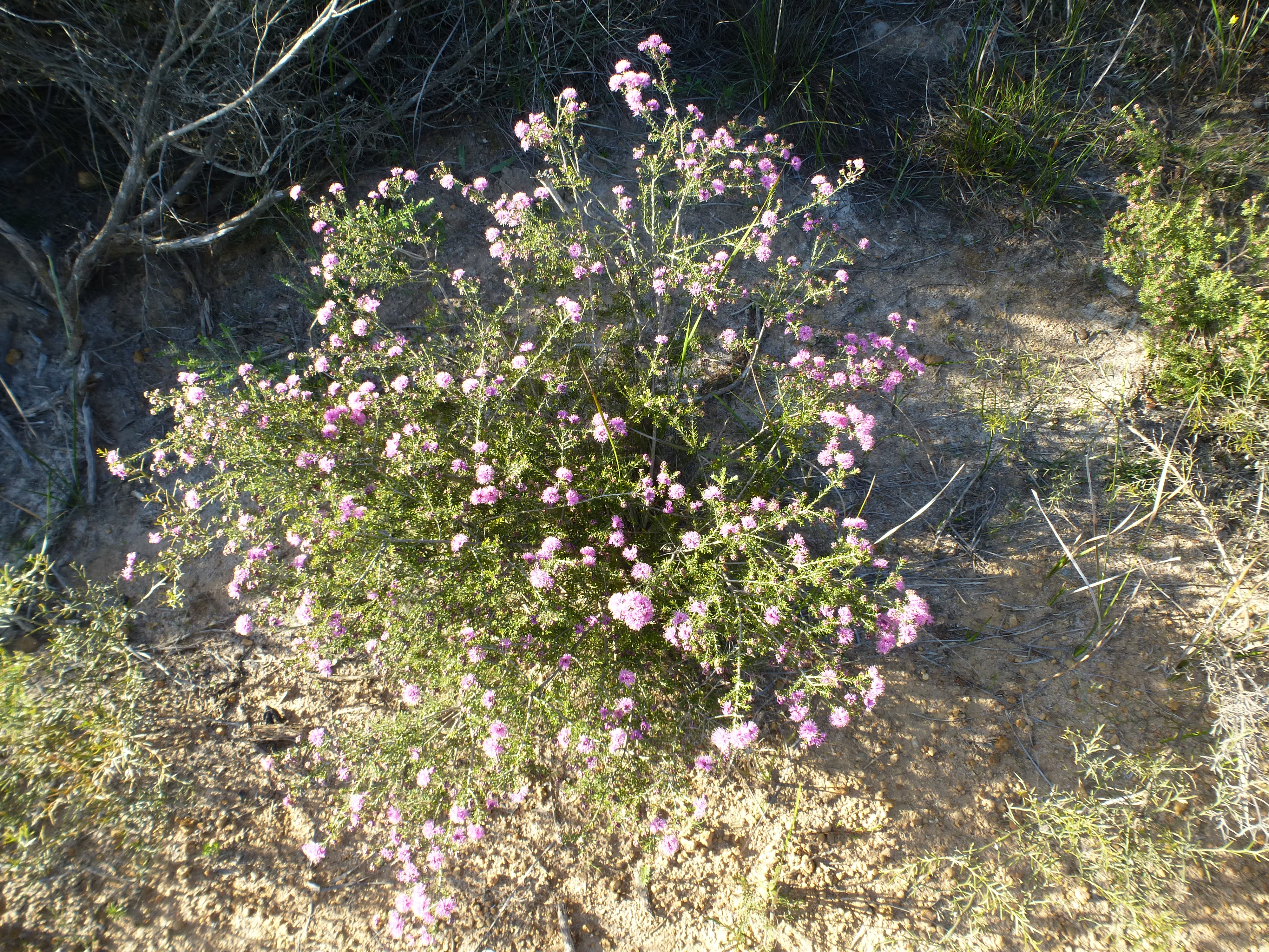 Melaleuca seriata growing near Badgingarra